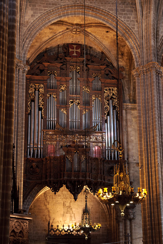 Cathedral of Barcelona. Organ.